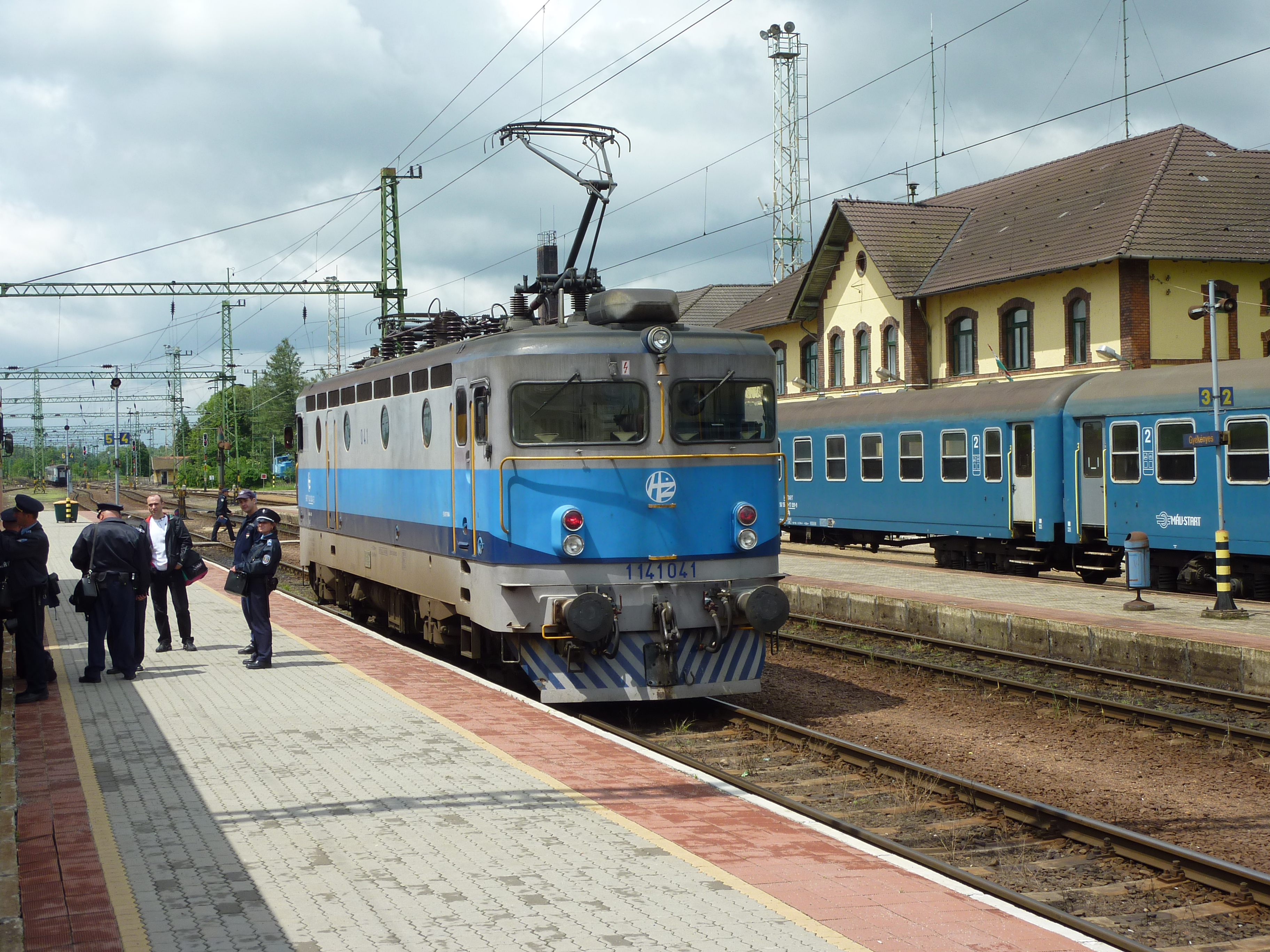 Railway station Gyékényes in Hungary